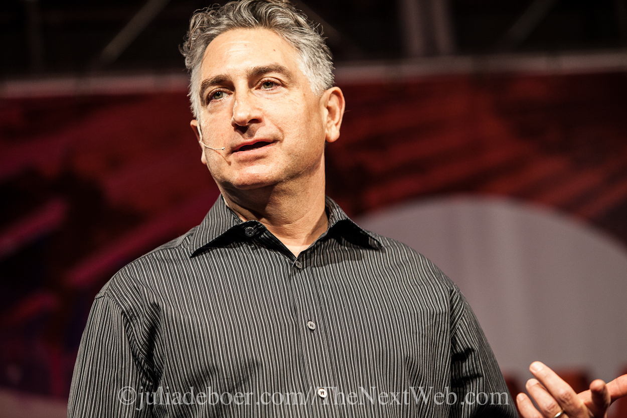 The Next Web USA 2013